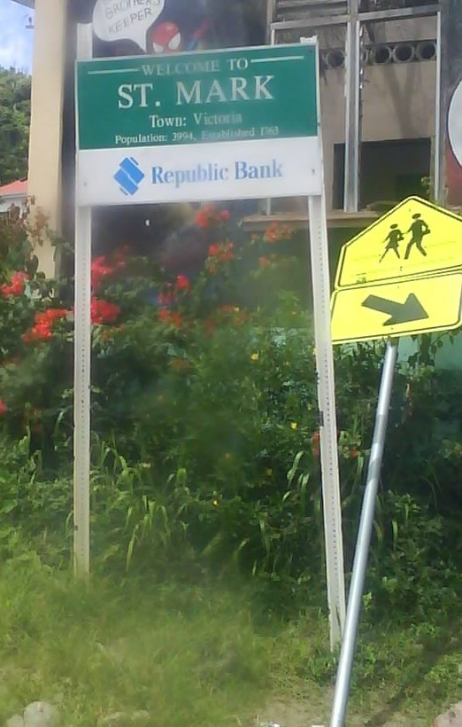 The town of Victoria in Saint Mark parish for Grenada 中文（中国大陆）: 格林纳达圣马克区城镇维多利亚